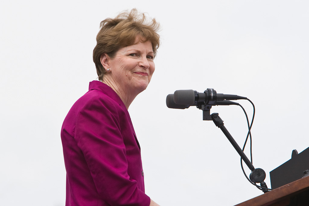 Jeanne Shaheen speaking at a rally; she was eventually elected as junior Senator for New Hampshire, overcoming the Republican incumbent.